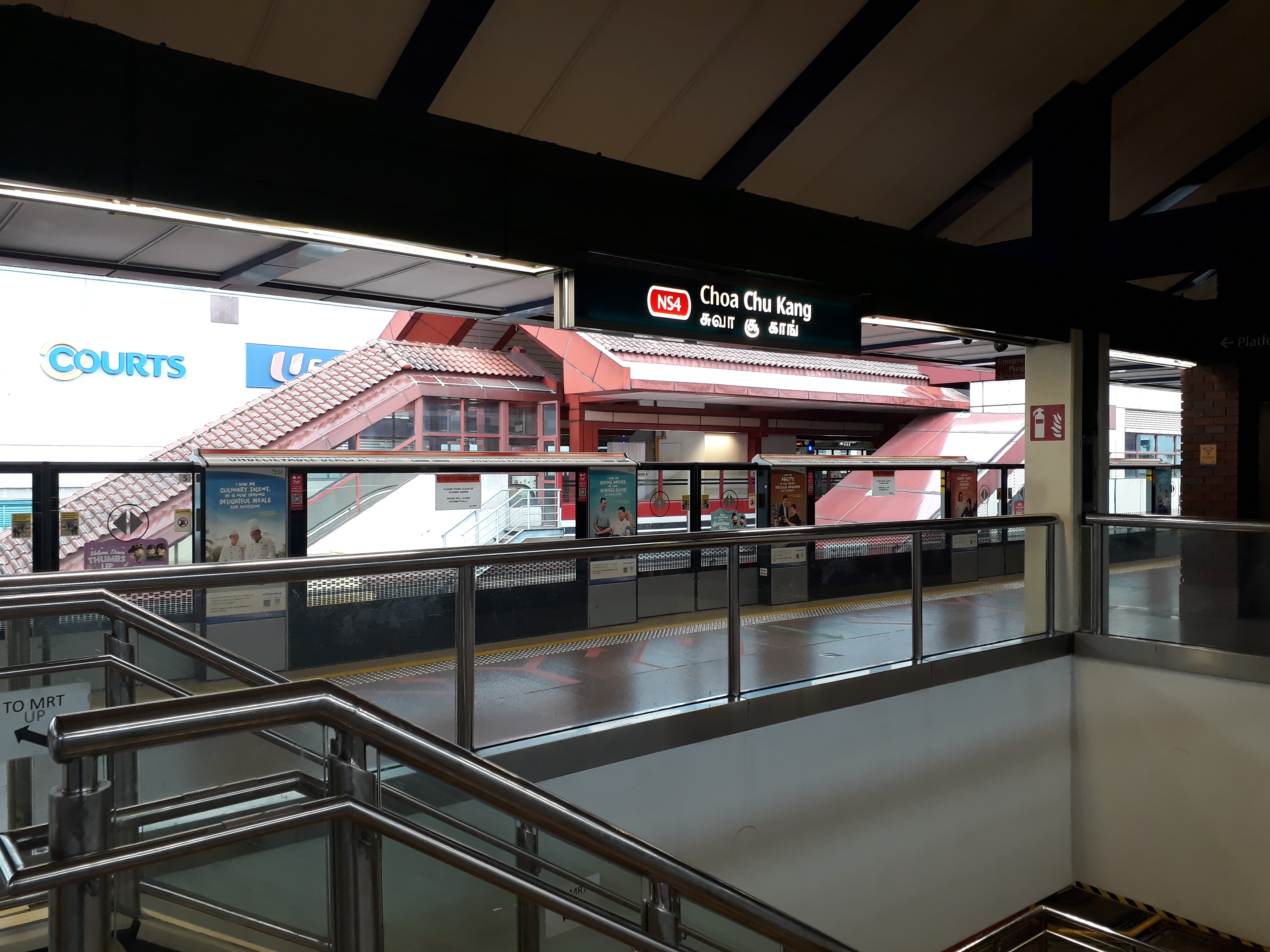 Platform A of Choa Chu Kang with the BPLRT Platform in the background